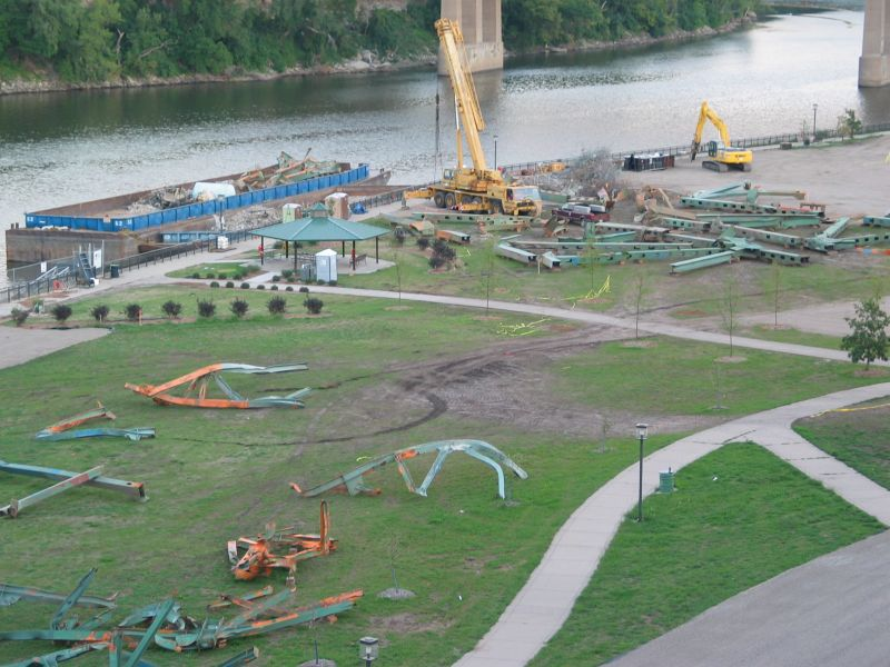 Pieces of collapsed 35W bridge laid out on "Bohemian Flats" area downriver from the bridge. Taken on 9/1/2007 from the pedestrian Bridge #9.